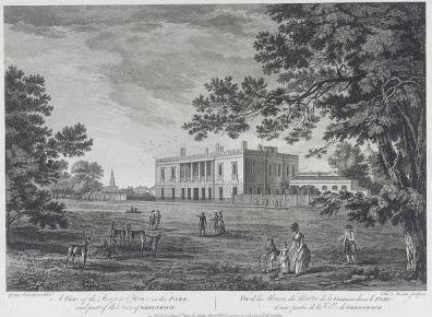 The Ranger's House, Greenwich. At this time, in 1781, the Ranger lived in the Queen's House, Greenwich, as shown here, from the Park side.